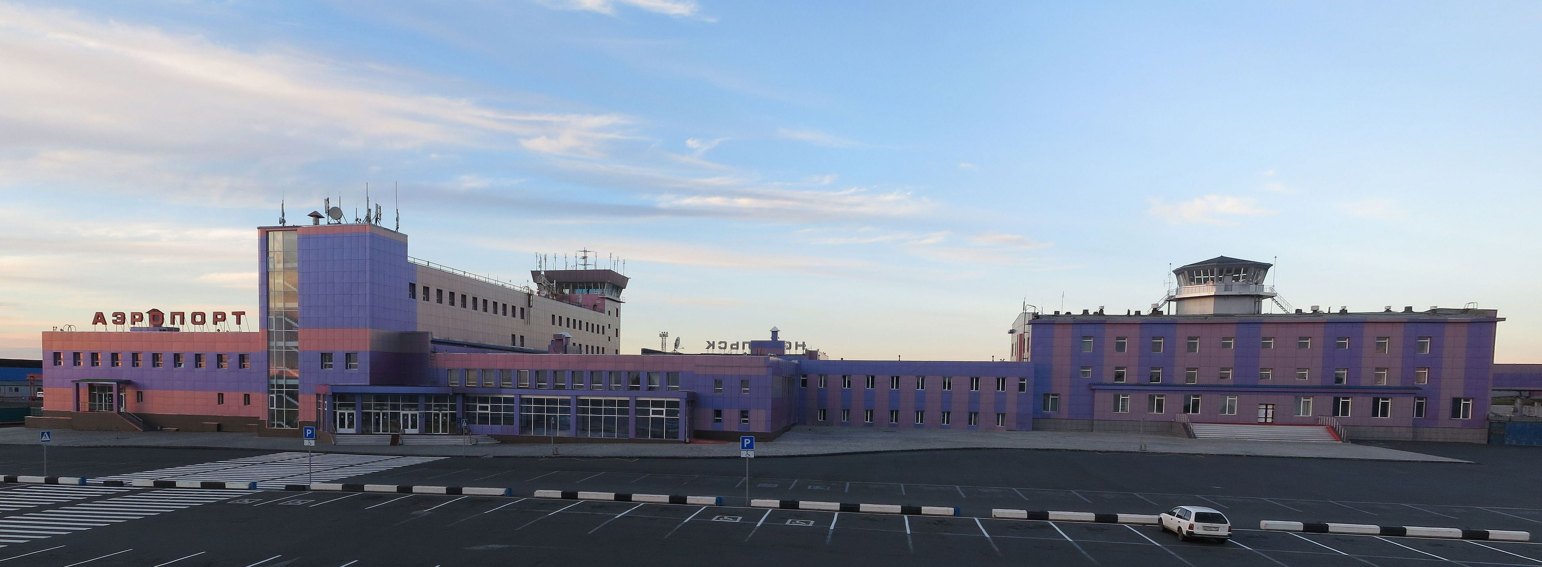 Norilsk